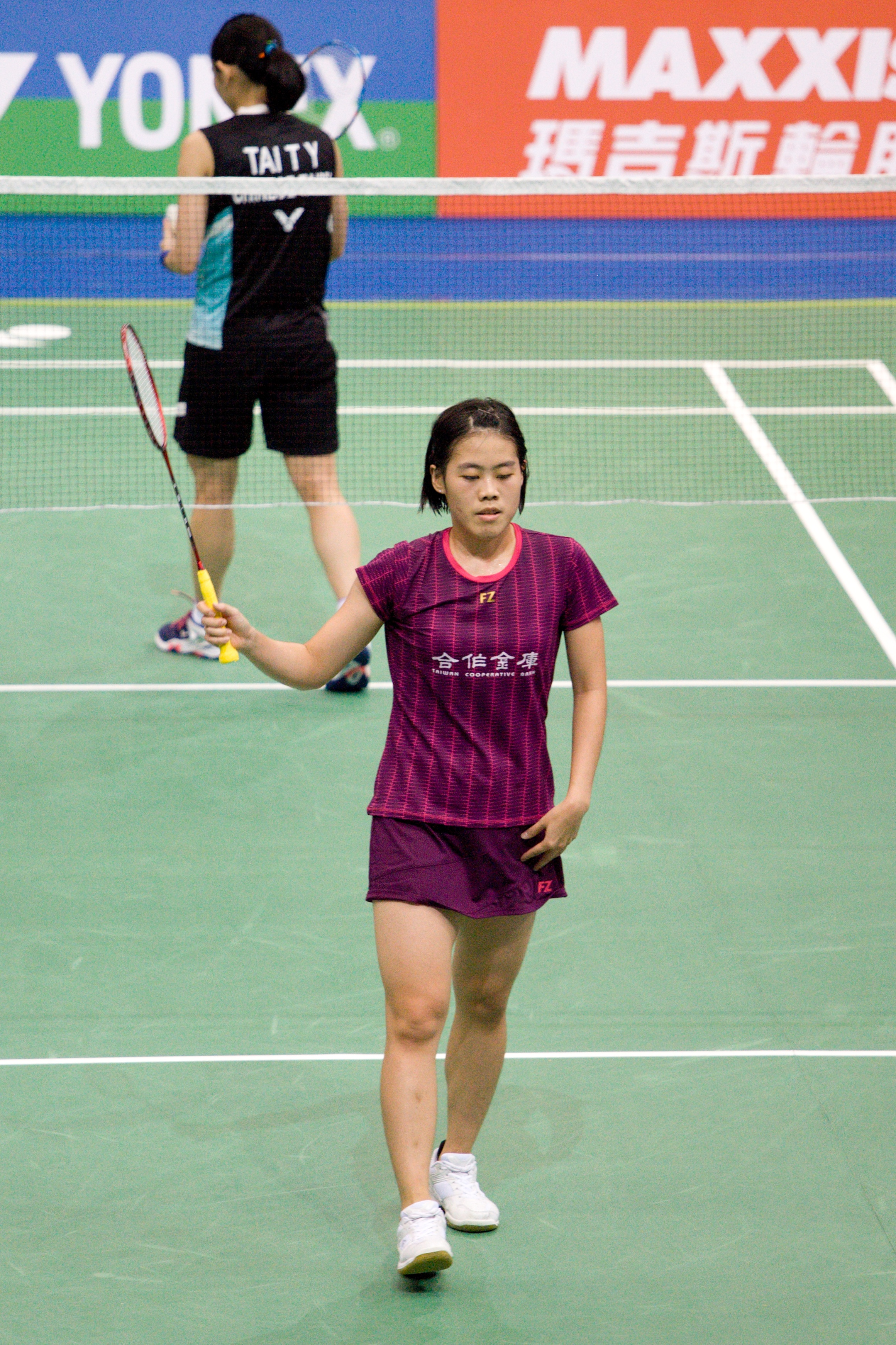 Yonex Chinese Taipei Open 2018 - R2 - CHIANG Ying Li vs Tai Tzu-ying